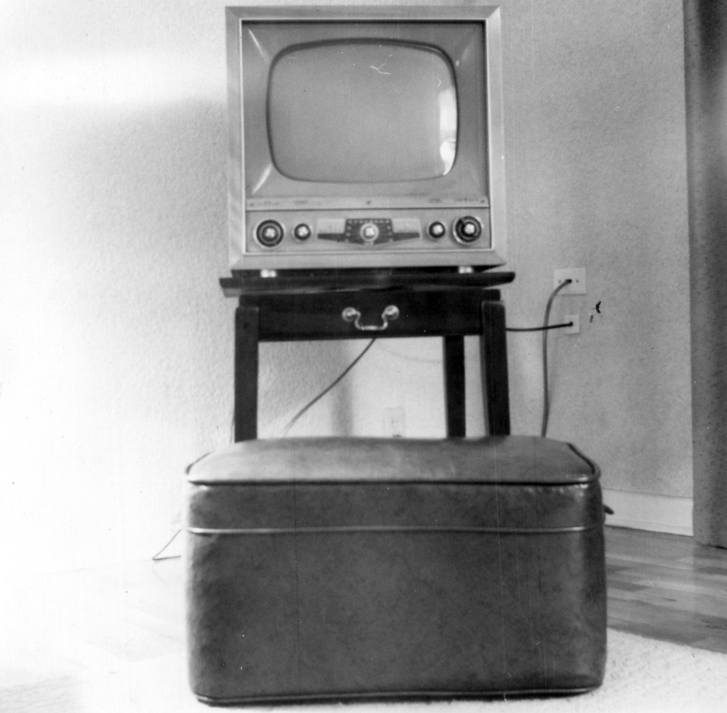 I took this photo in about 1955 in Eugene, Oregon (USA). I think we got the set in 1953. At first there was only a fuzzy UHF station 100 miles away (in Portland); later there was a local VHF station. The cables in the wall are for the UHF and VHF antennas which were on the same 40-foot mast on the roof.